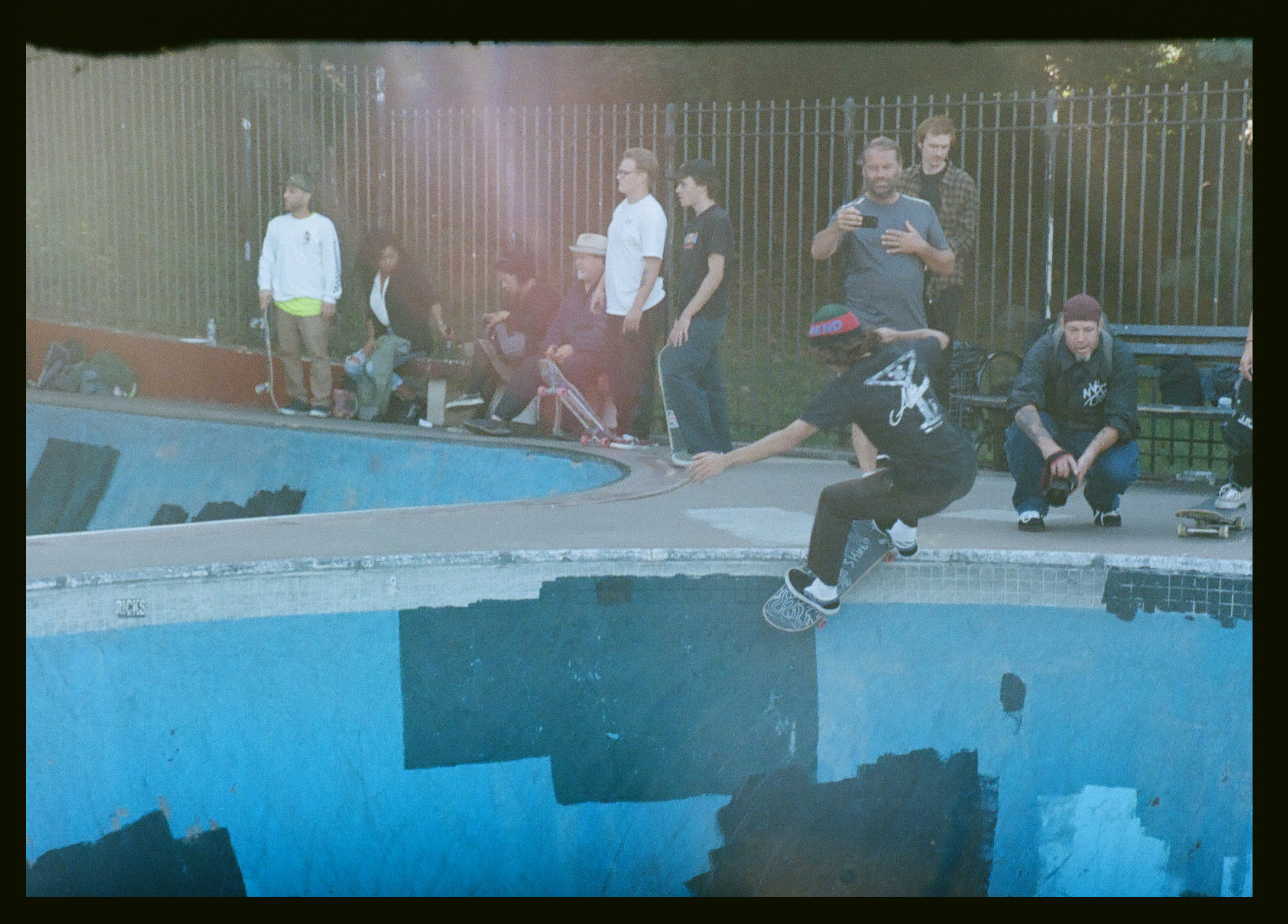 Ty Beuthe grinds the pool coping in the deep end at Millennium Skate Park during the NYC Skate Coalition Pool Series event - October 2019